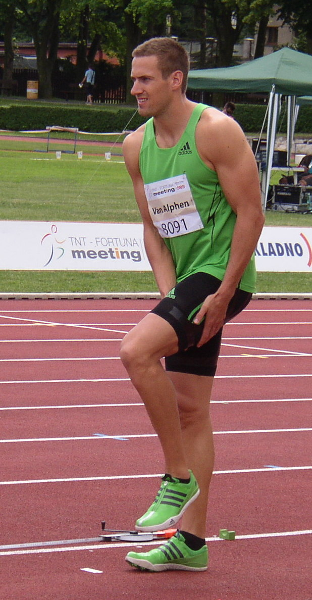 Athlete Hans Van Alphen of Belgium preparing for his attempt in long jump during men's decathlon at 5th edition of the TNT - Fortuna Meeting (IAAF World Combined Events Challenge Meeting, Sletiště Stadium, Kladno, Czech Republic, 15 June 2011, 12:57).